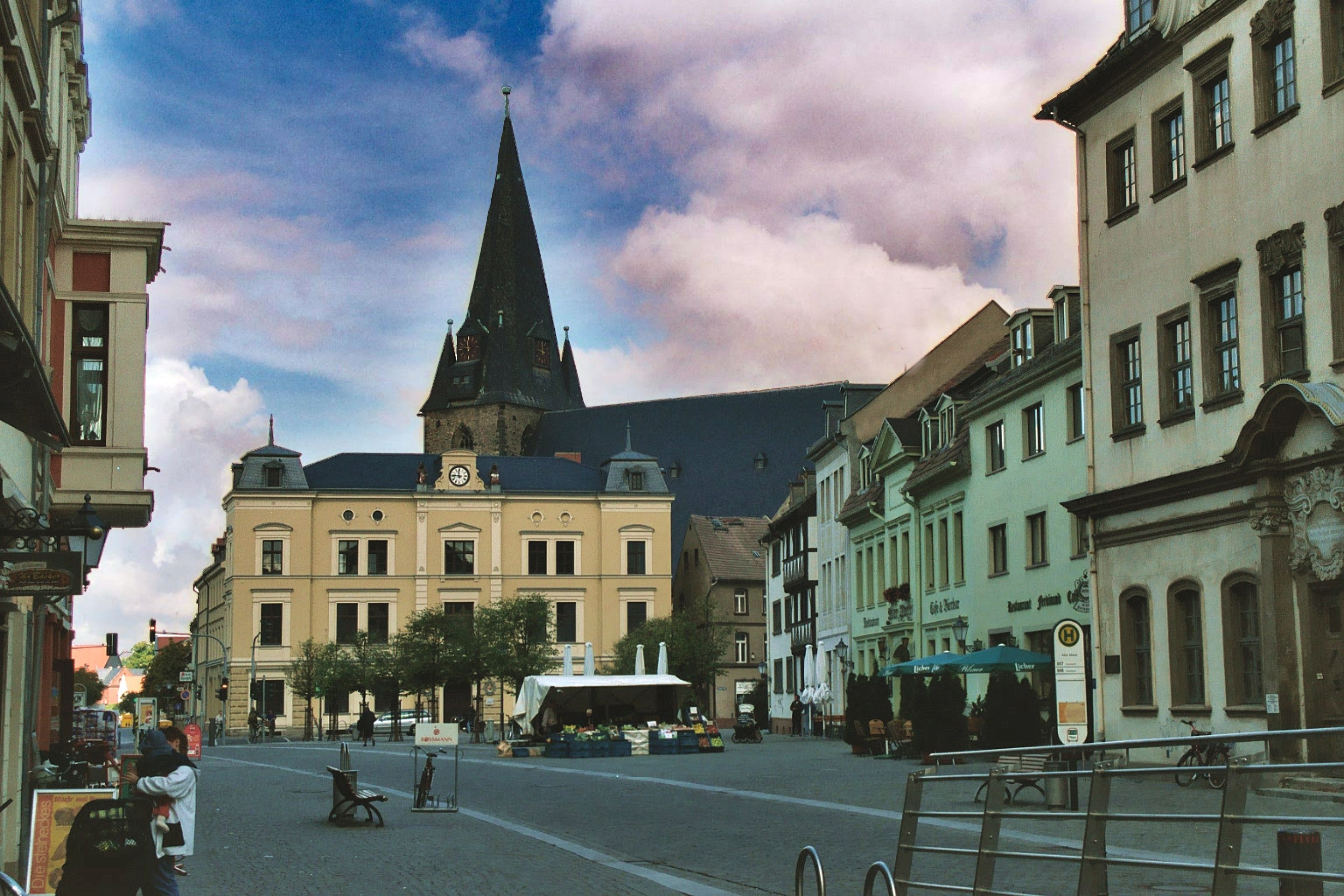 Bernburg (Saale), town square, Mary´s Church and former town hall of the lower city